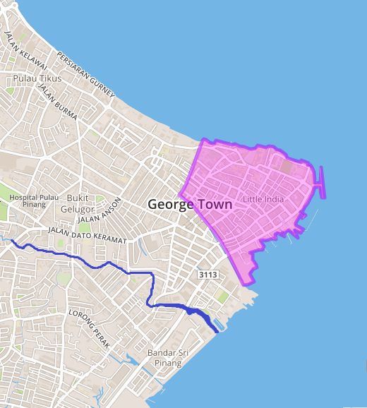 Map of central George Town, Penang, with Sungai Pinang highlighted in dark blue. The purple zone denotes the UNESCO World Heritage Site. Geographic limits of the map: N: 5.4412° S: 5.3921° W: 100.3072° E: 100.352°